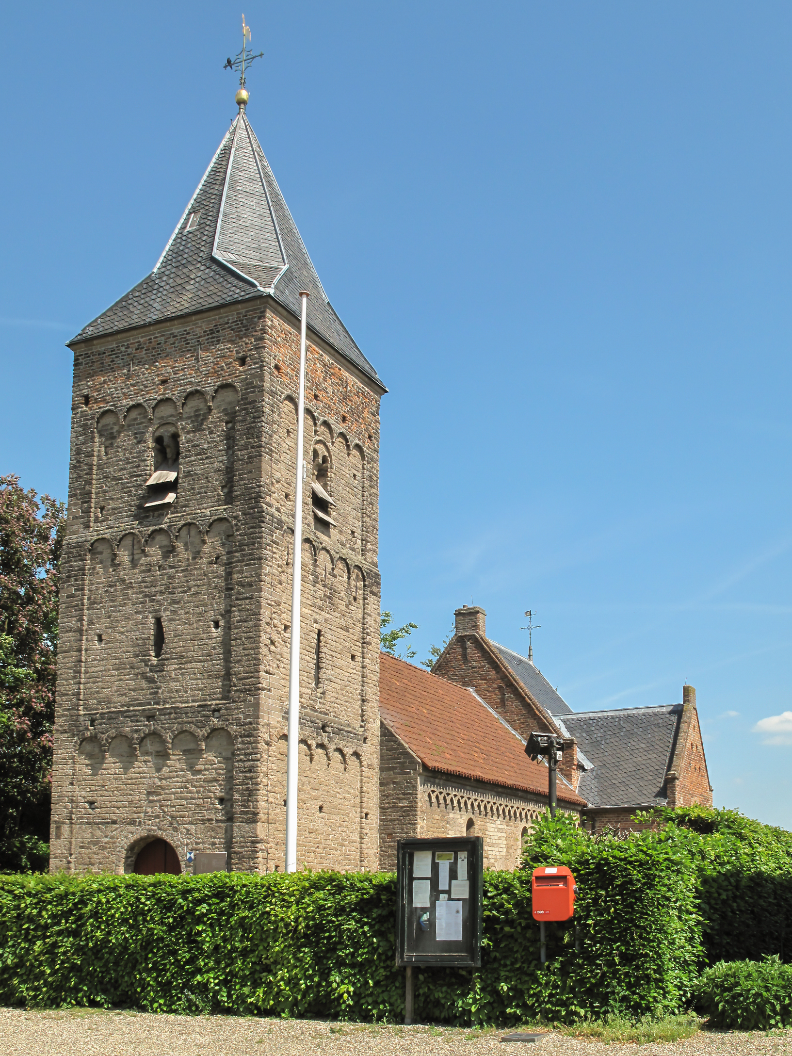 Ressen, chuirch